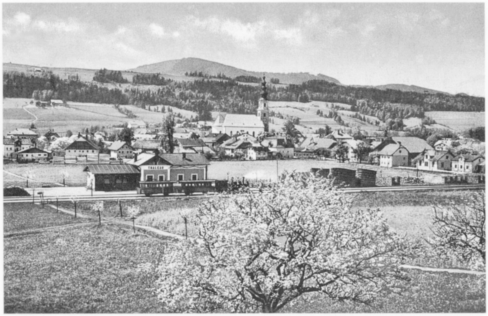 Thalgau in Salzburg with Salzkammergut-Lokalbahn narrow gauge railway station